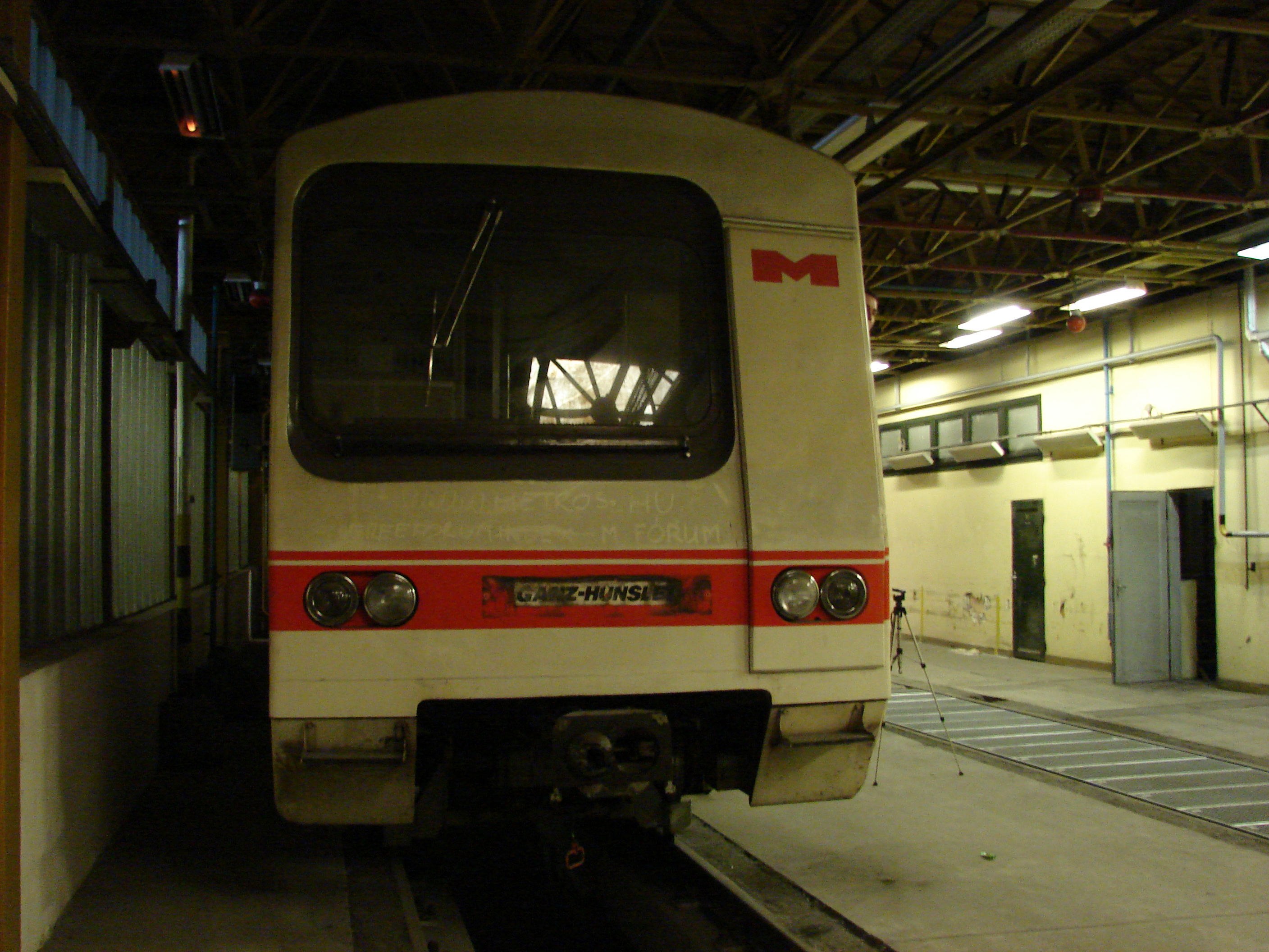 Ganz-Hunslet G2, Hungarian metro train (prototype)